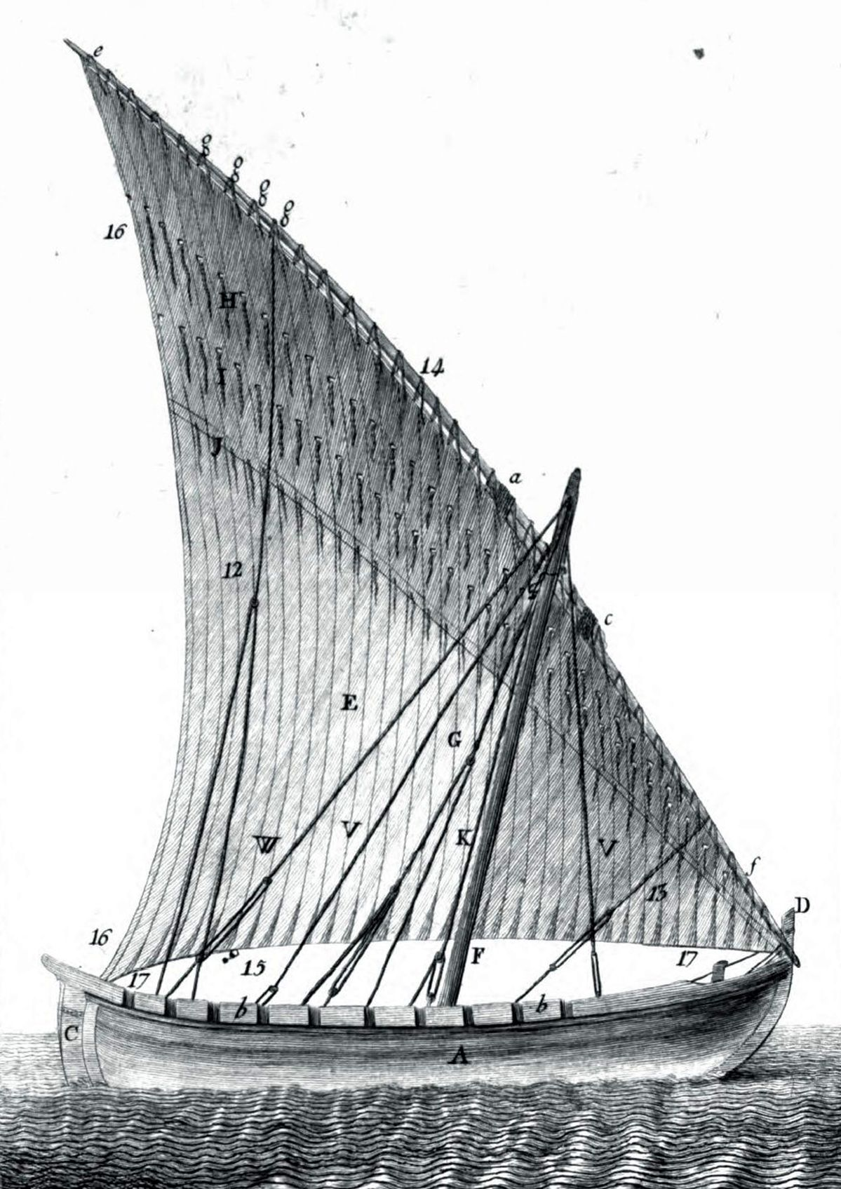 Drawing describing the different parts of a Catalonia-rigged Felucca used in Catalonia during centuries and described in in San Francisco bay in the middle of s.XIX.."They are keeled, decked-over, lateen or, as some insist, catalonia rigged'" (Roger R. Olmsted; Nancy Olmsted; Allen G. Pastron San Francisco waterfront..)